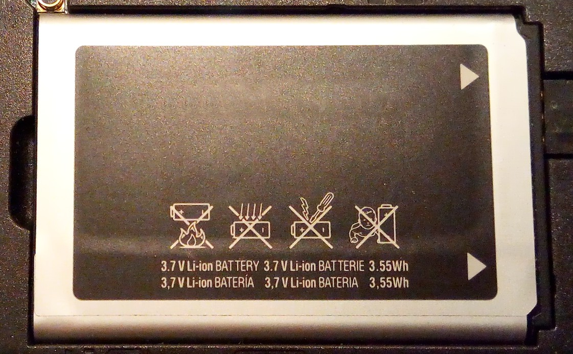 Battery in its housing with the maneuvers described above to be avoided